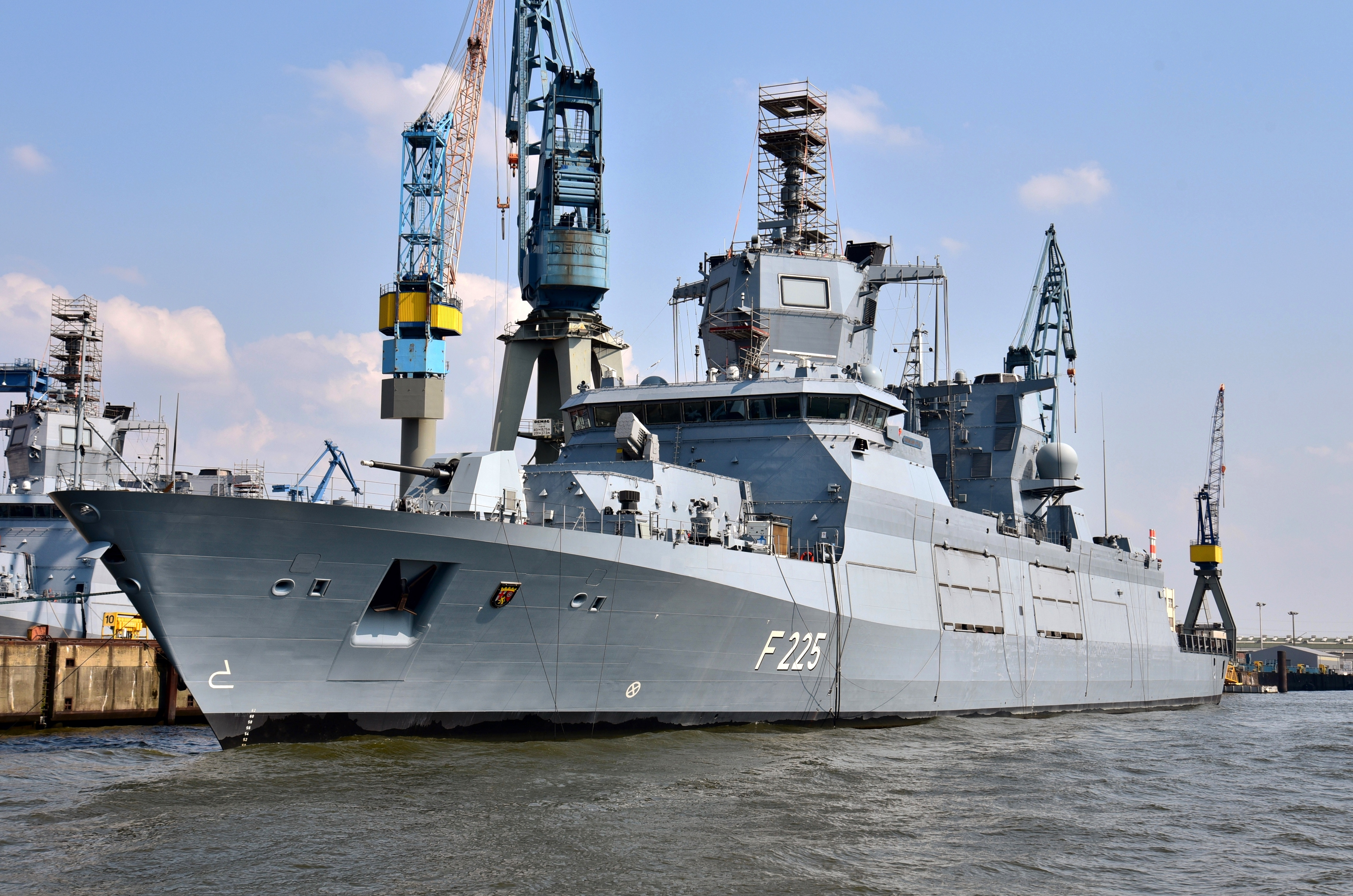 View of the German frigate Rheinland-Pfalz (F225) at the Blohm + Voss fitting out pier in Hamburg